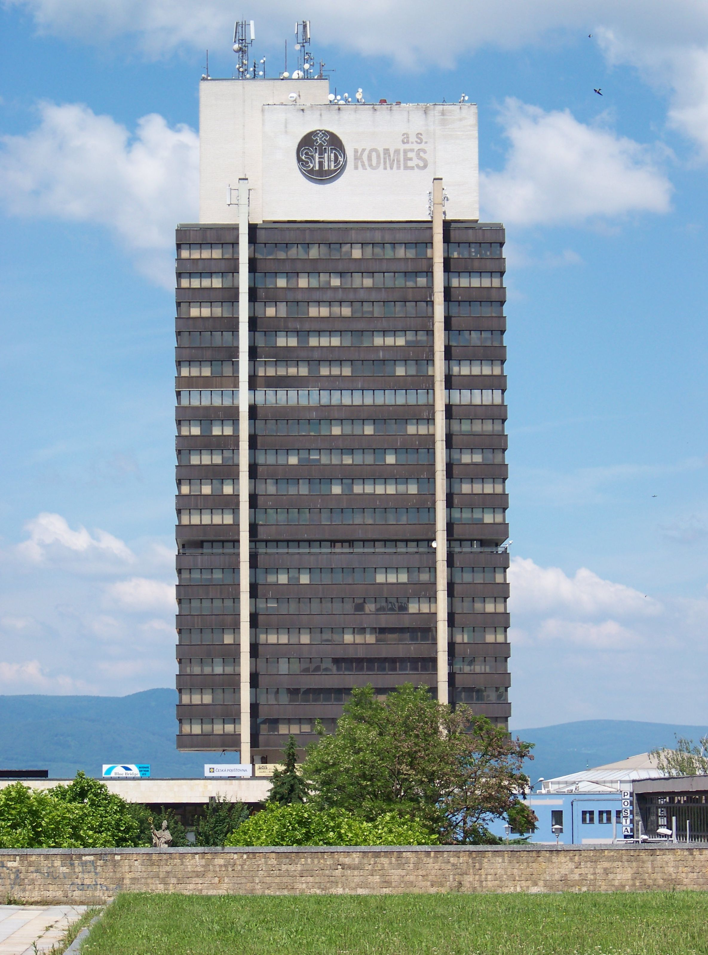 Most, Most District, Ústí nad Labem Region, Czech Republic. Moskevská 14, SHD Komes.